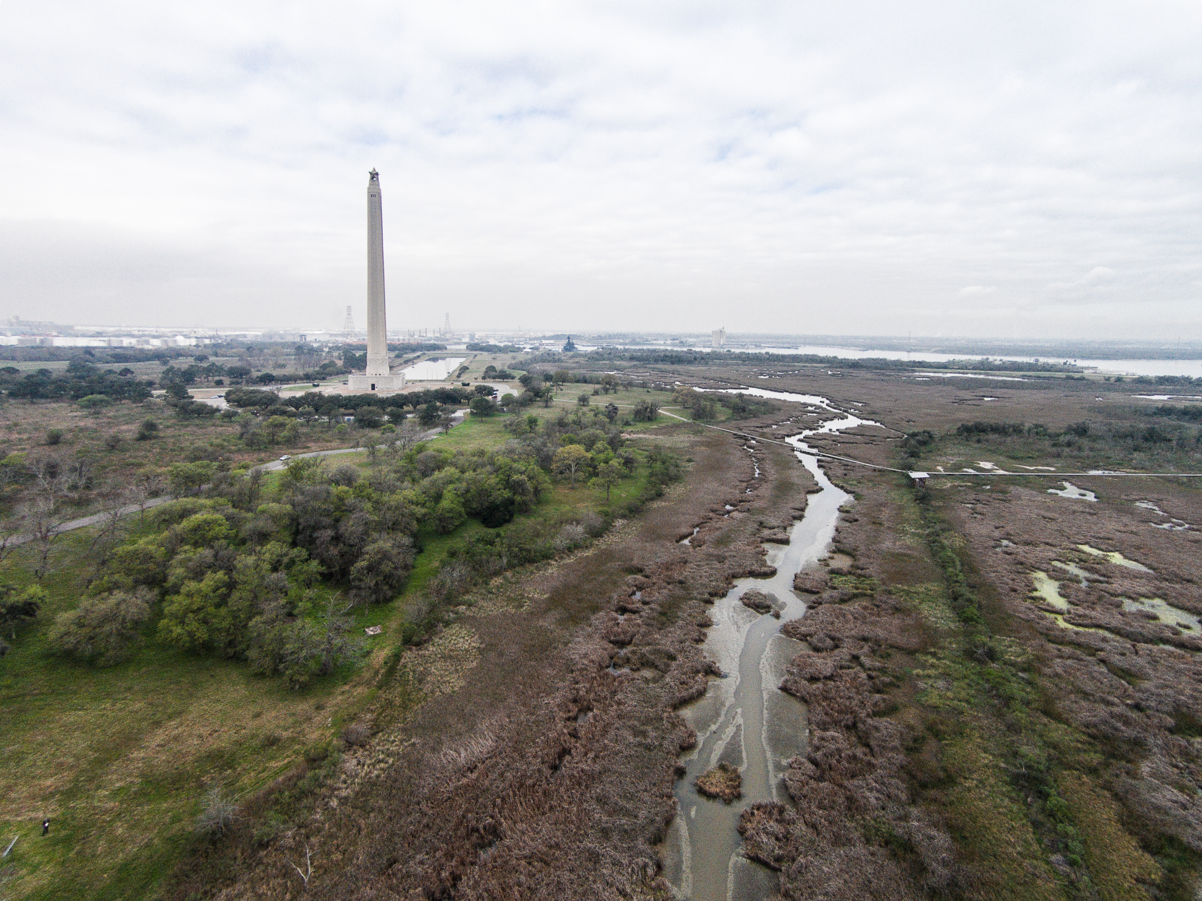 San Jacinto Battlefield, 22 mi (35 km). E of Houston on TX 134 Houston